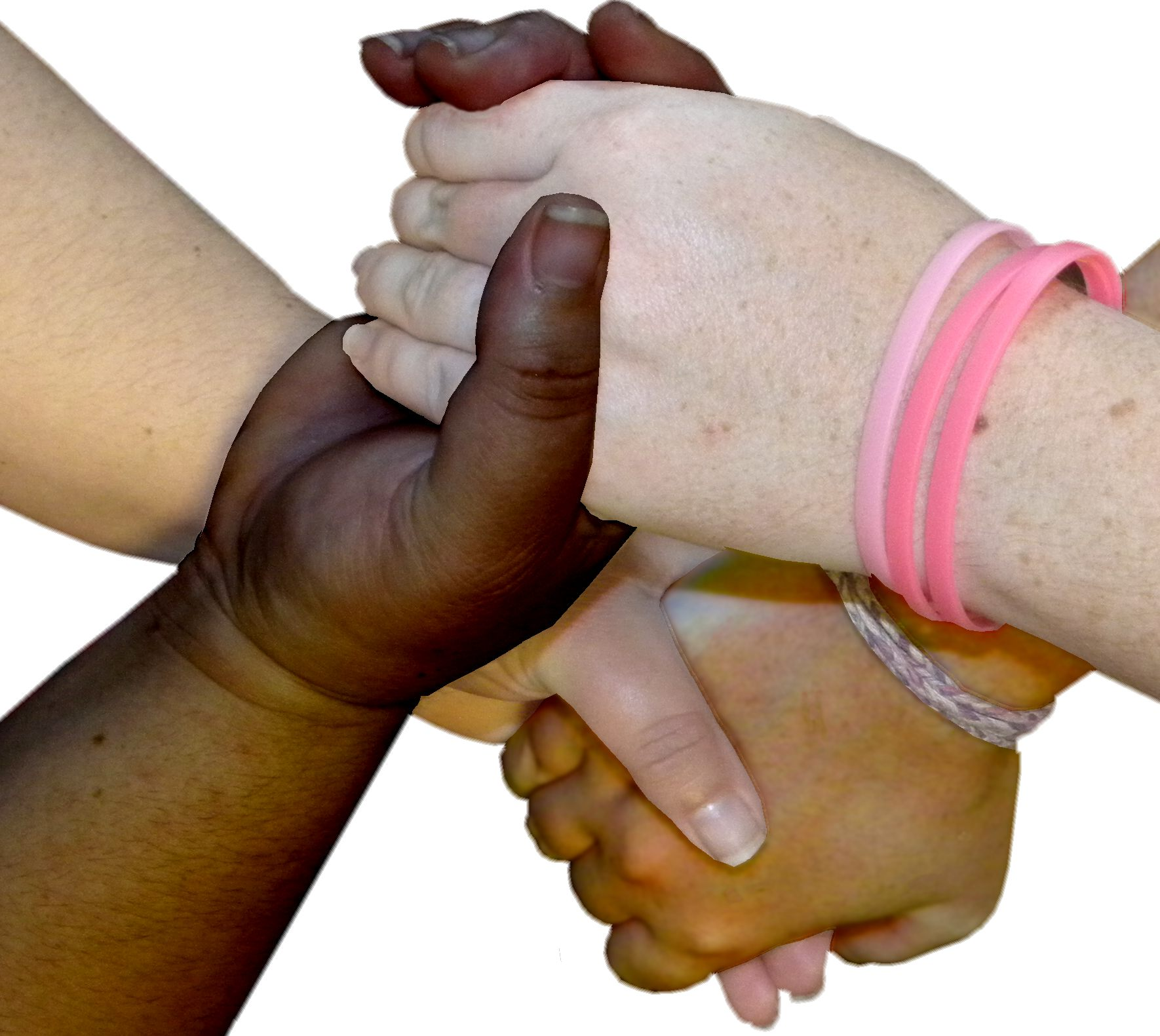 Four hands holding.